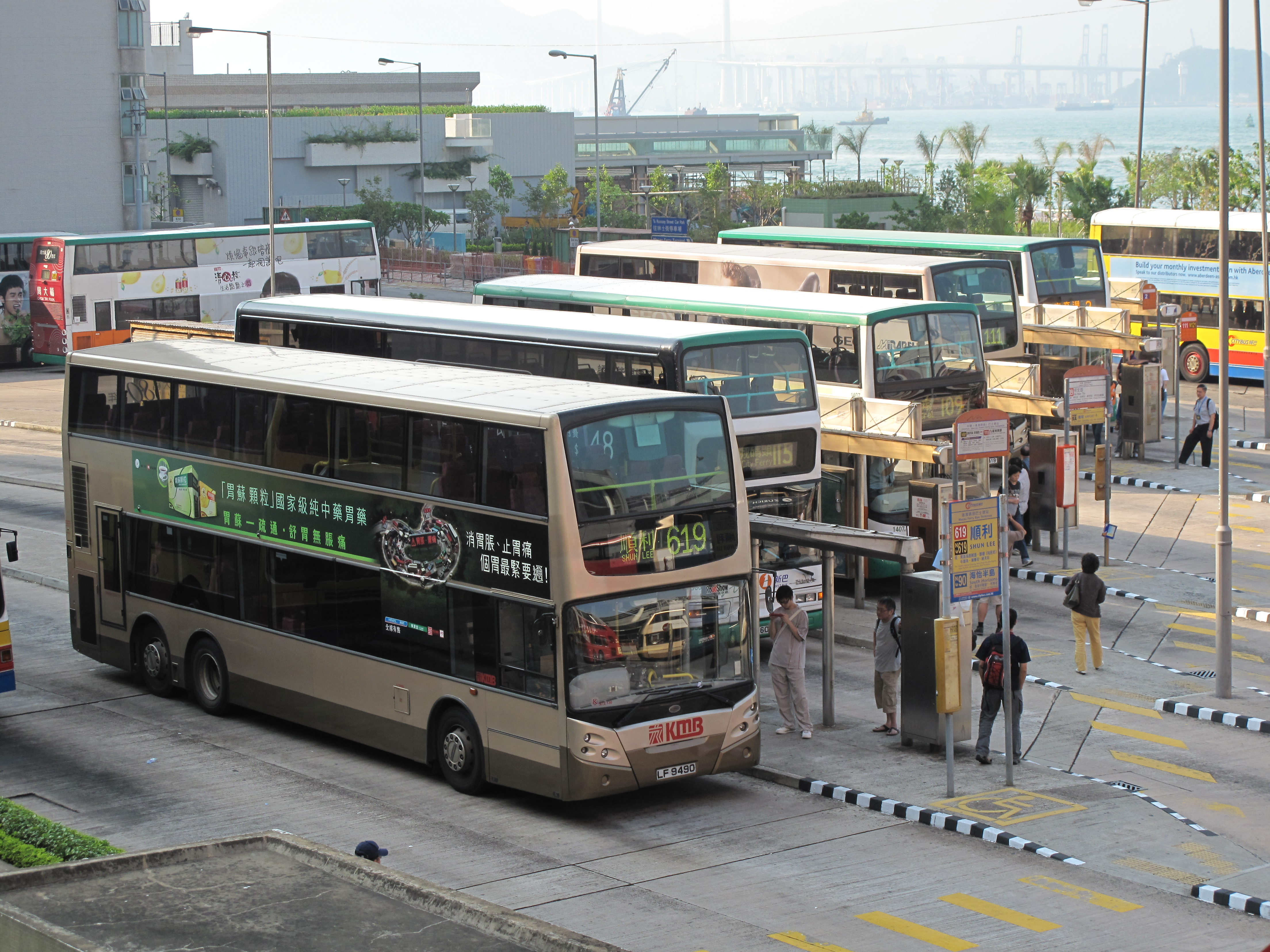 Photo of Central (Macau Ferry) Bus Terminus